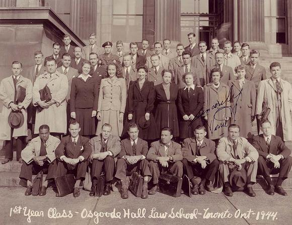 The First Year Class at Osgoode Hall Law School in Toronto, Ontario, Canada. Photo appears to have been taken on the front stairs of the Toronto Registry Office (demolished in the 1960s), which was adjacent to Osgoode Hall. At the time of this photograph, the only accredited law school in Ontario was the Law Society of Upper Canada's own Osgoode Hall Law School, with its facilities downtown in Osgoode Hall. In 1969, the Ontario Ministry of Education would require all law schools to be affiliated with a university, and the Osgoode Hall Law School would relocate north to the campus of York University (yet maintain the name associated with its former premises).